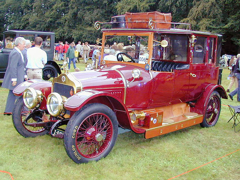 26 HP model powered by a 4084 cc 4-cylinder pair-cast engine with sleeve-valves, made in Belgium by Minerva Motors SA; front-side view